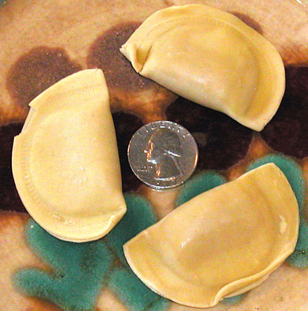 Uncooked agnolotti pasta.